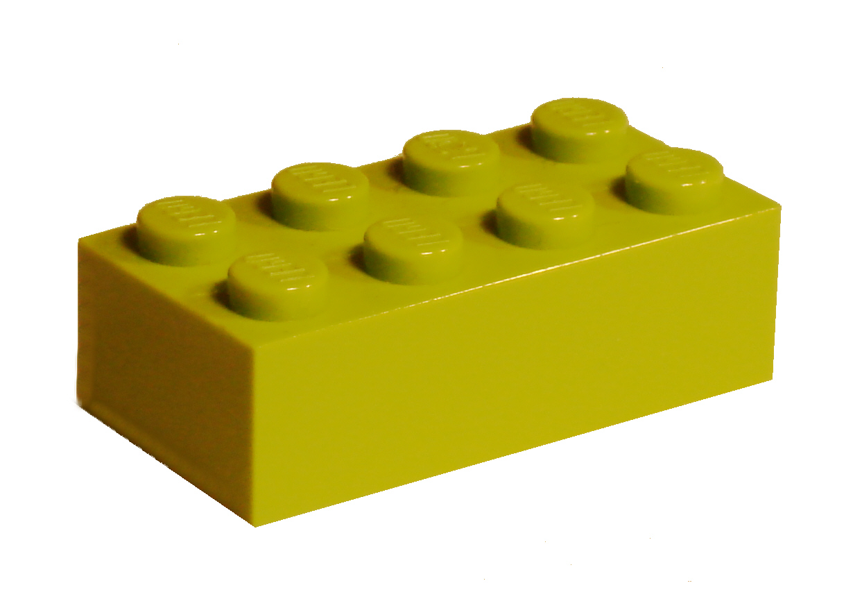 Light Green Lego Brick